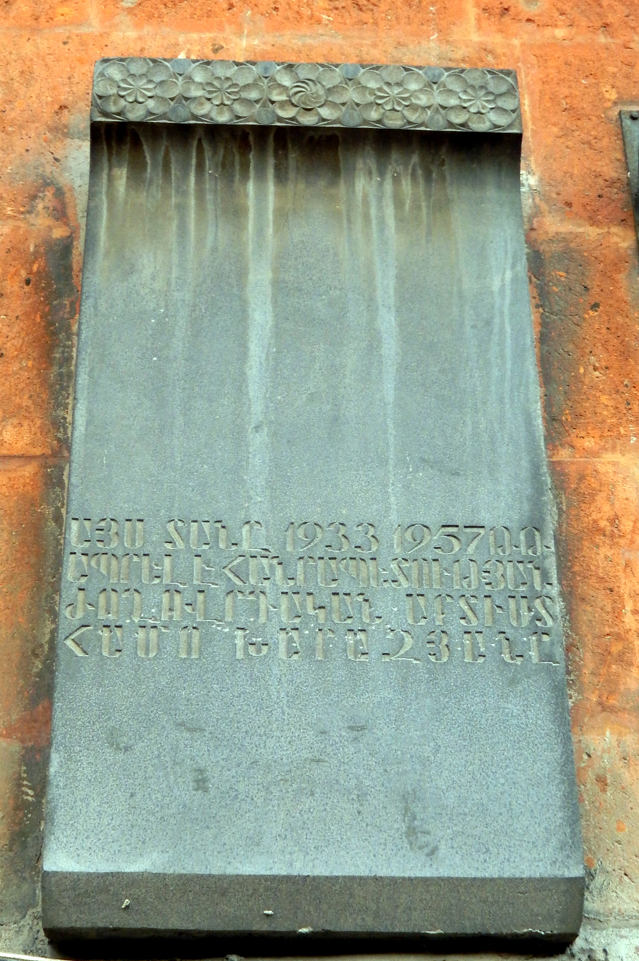 Amo Kharazyan's Plaque